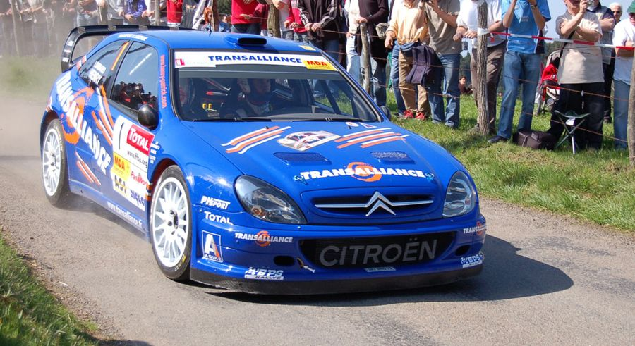 Patrick Henry in Rallye Lyon-Charbonnière 2006